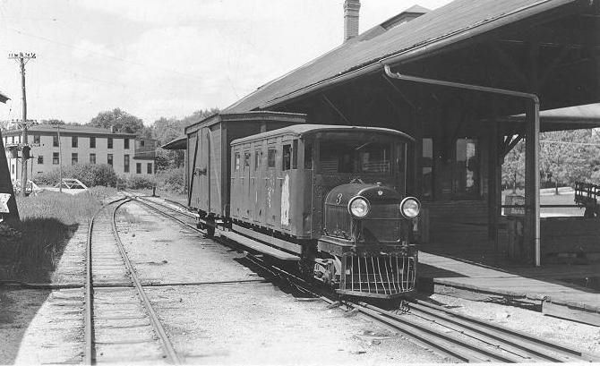 Railbus No 3 of Bridgton and Harrison Railway at Bridgton Depot